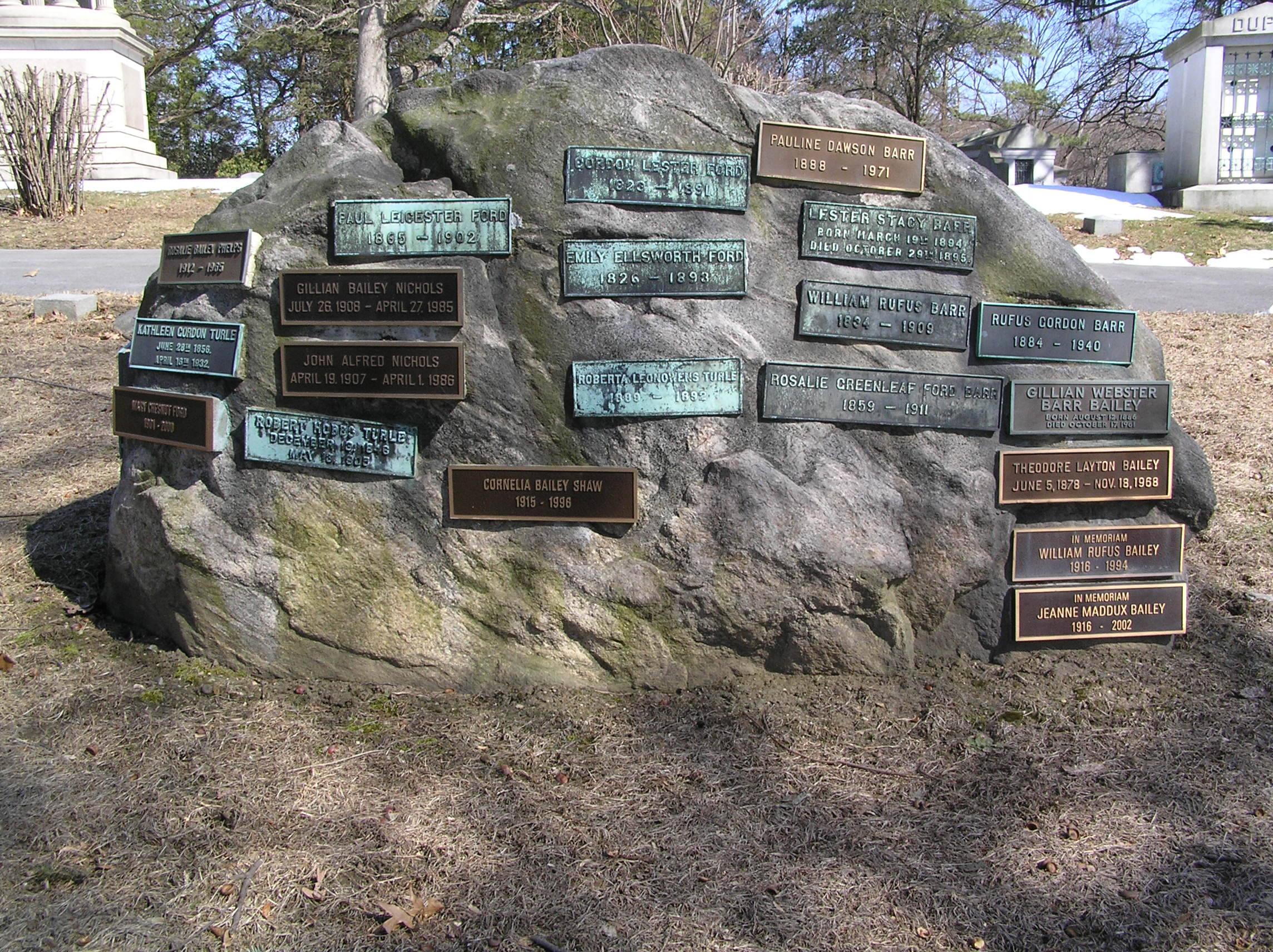 The gravesite of Paul Leicester Ford in Sleepy Hollow Cemetery